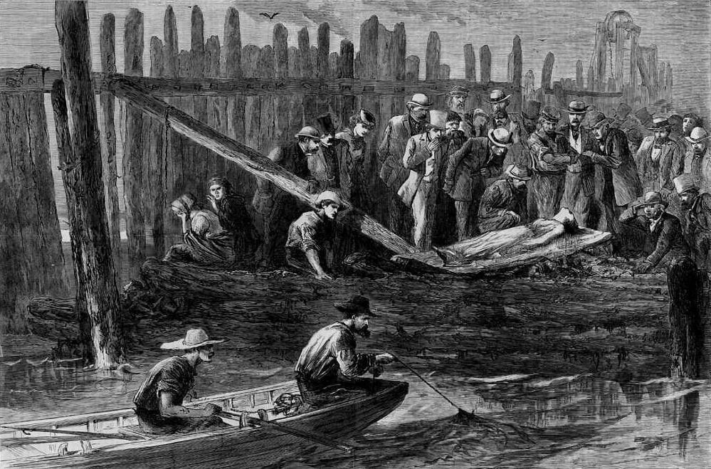 The Staten Island Ferry-Boat Disaster -- Recovery of Dead Bodies at Whitehall Slip, a wood engraving drawn by Sol Ettinge, Jr., and published in Harper's Weekly, August 12, 1871. The boiler of the ferry Westfield exploded on June 30, 1871, leaving some 85 dead and hundreds injured.